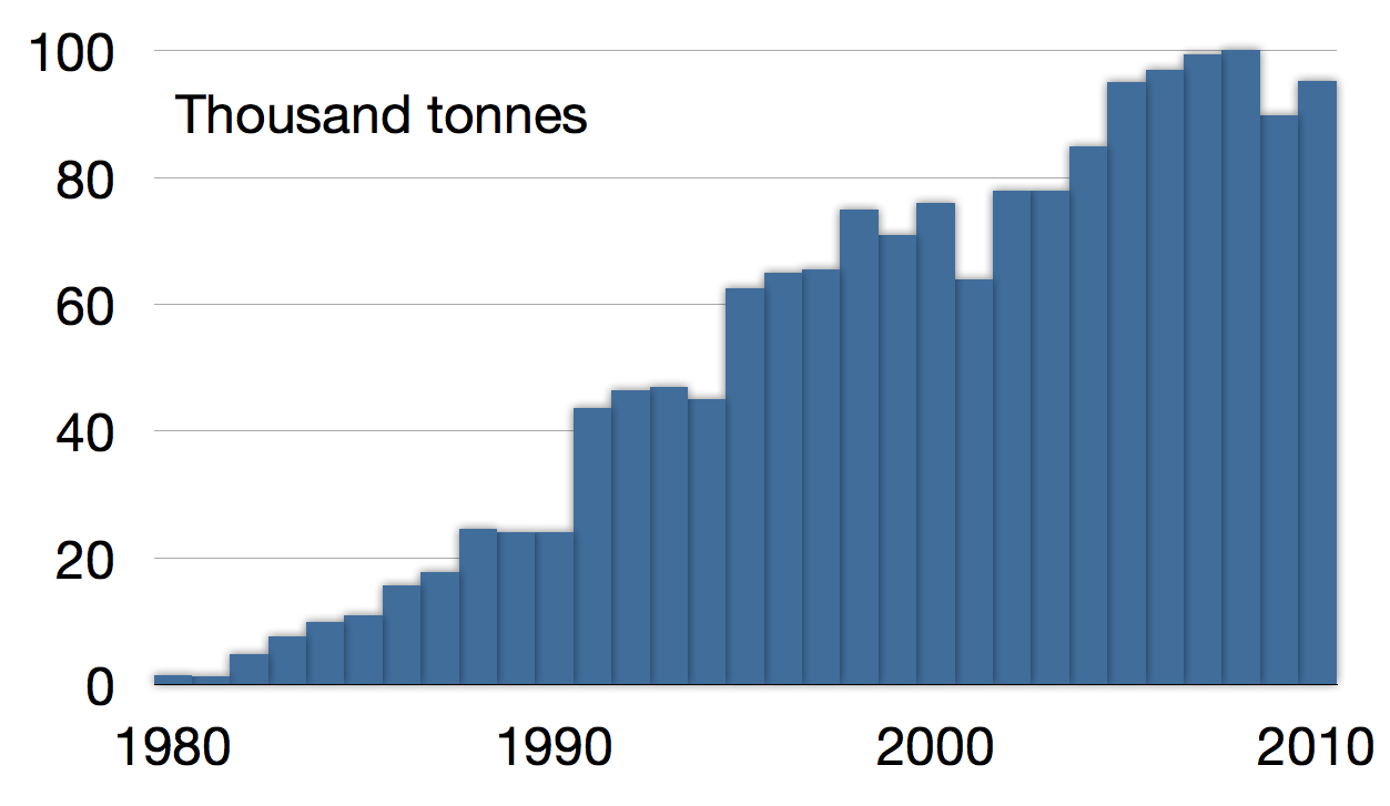 New Zealand aquaculture production of green-lipped mussel, Perna canalicula, in thousand tonnes from 1980 to 2010 as reported by the FAO. Data source FAO fisheries